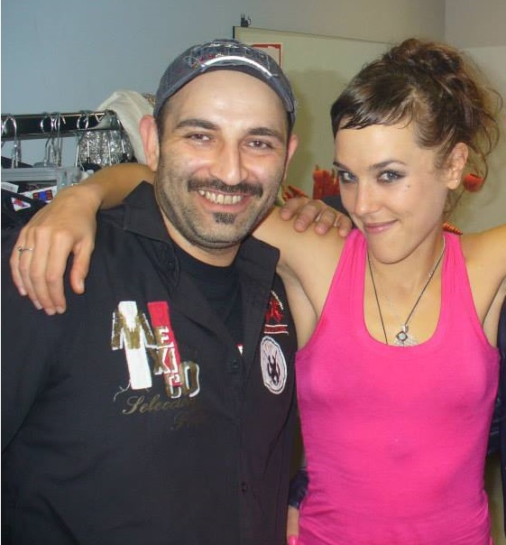 The french singer Zaz and the bulgarian painter Ivan Russev